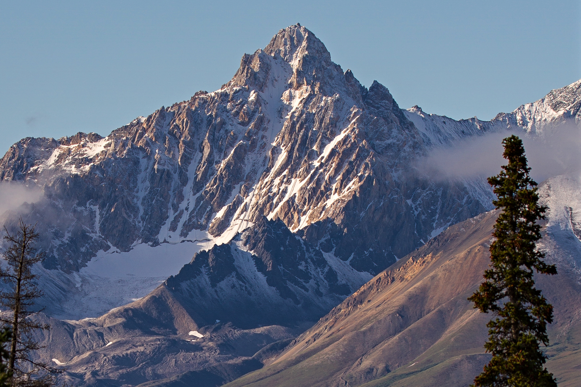 Mount Decoeli seen from northwest